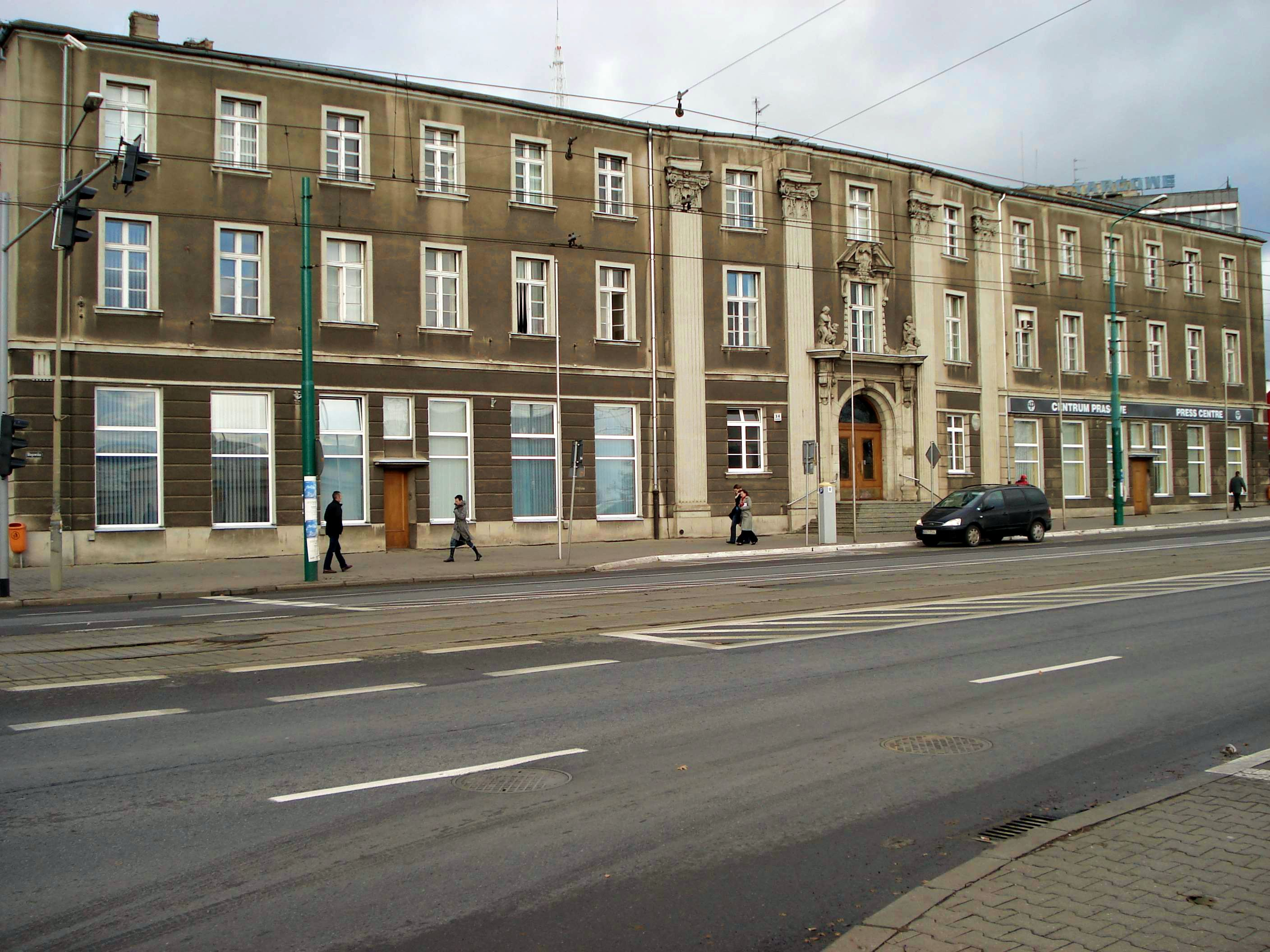 Administrative building of the International Fair in Poznań, 1925 (Pavilion 101). Designed by Stefan Cybichowski. Rebuild after 1945